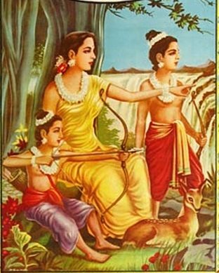 India has a distinguishing flavor in art, be in movie posters or vintage ads or paintings – it can be seen right from the pre-Independent times. The amazing folks at Tasveer Ghar has painstakingly processed and preserved a lot of these images/posters from pre and post colonial India. Here are some of the most interesting photos/images/posters from the collection. Enjoy!